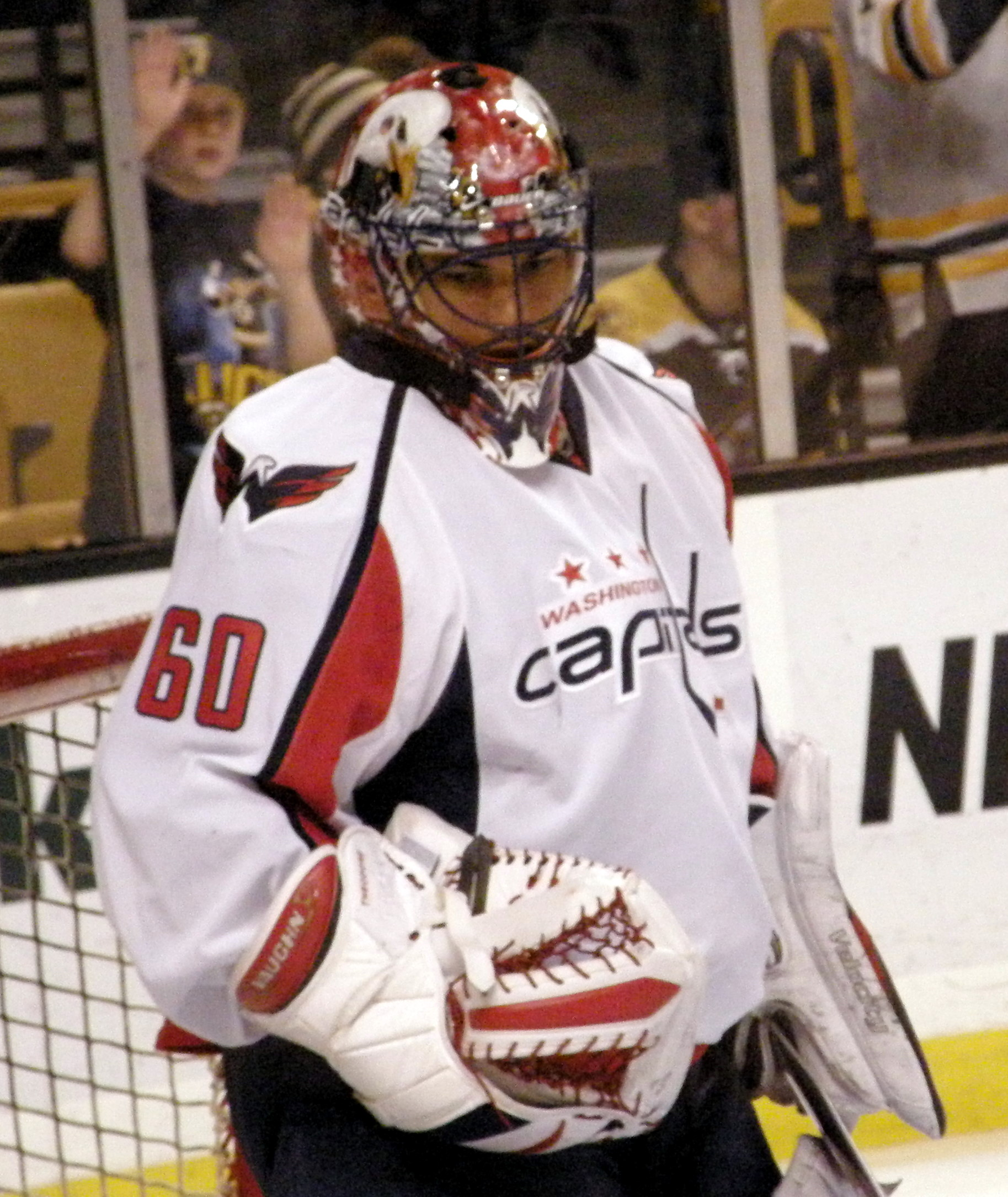 Jose Theodore, January 27, 2009